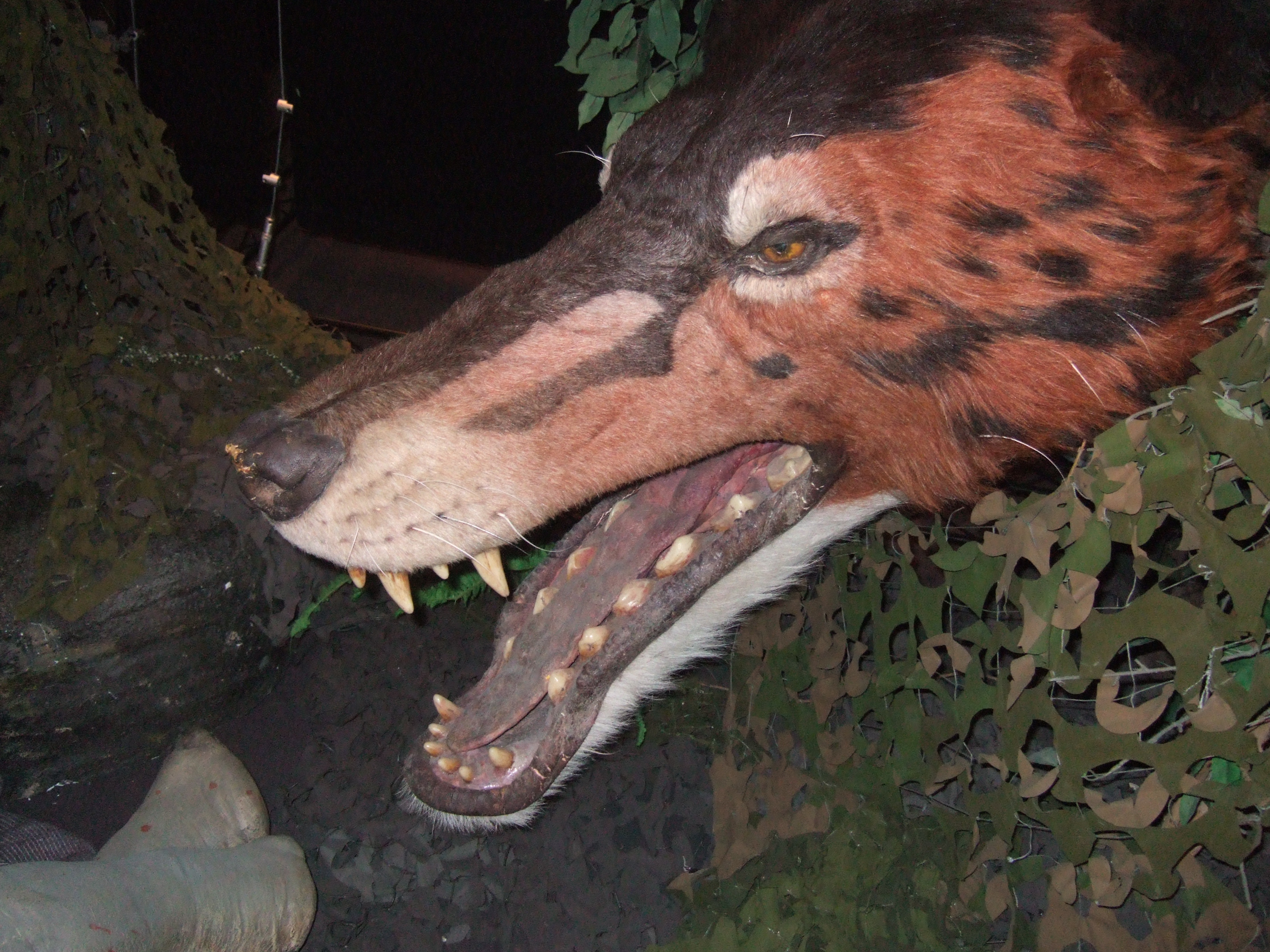 model of the head of Andrewsarchus.